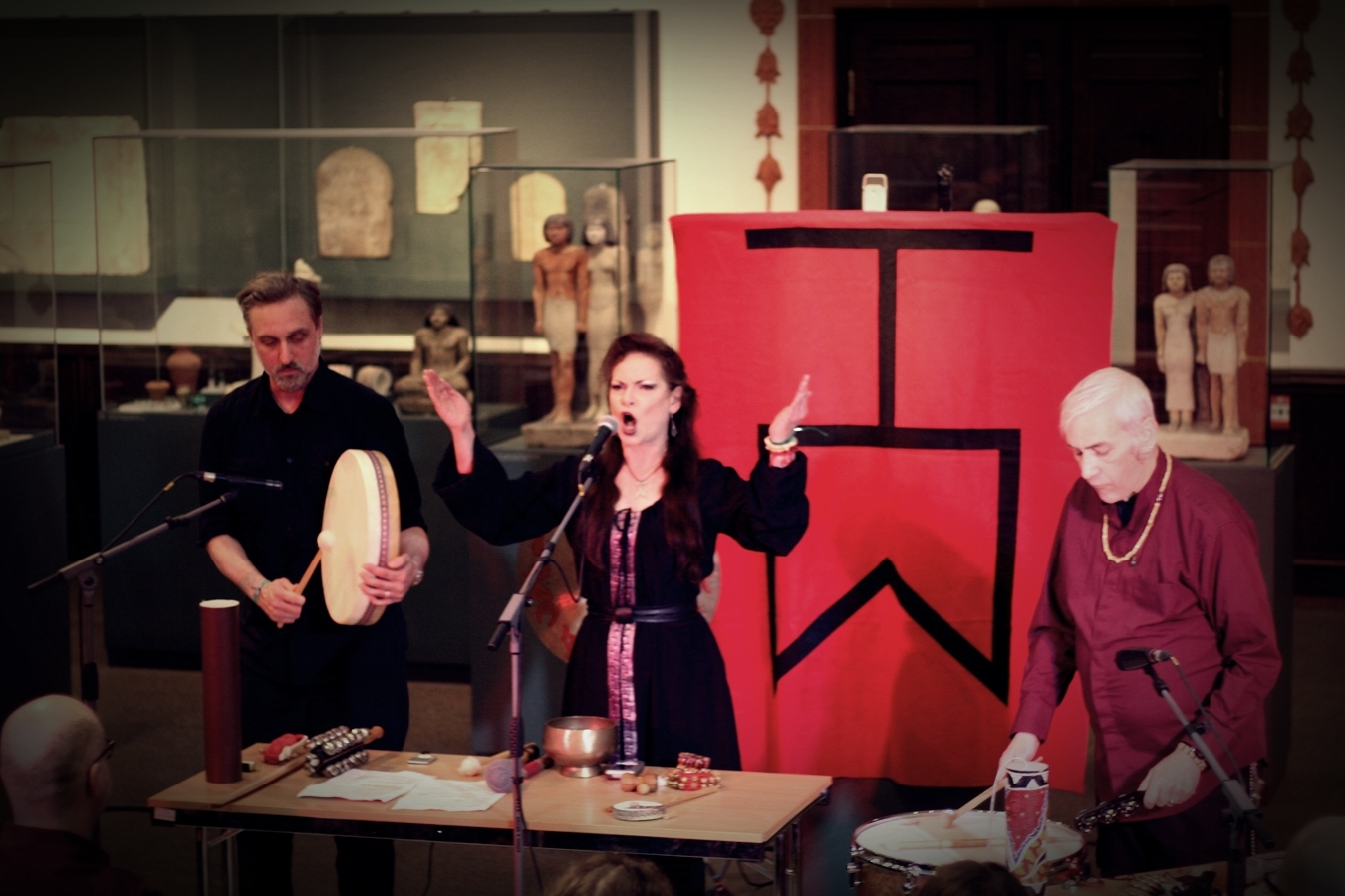 Zeena Schreck with John Murphy & Cory Vielma @ WGT May 23, 2015 Leipzig Germany